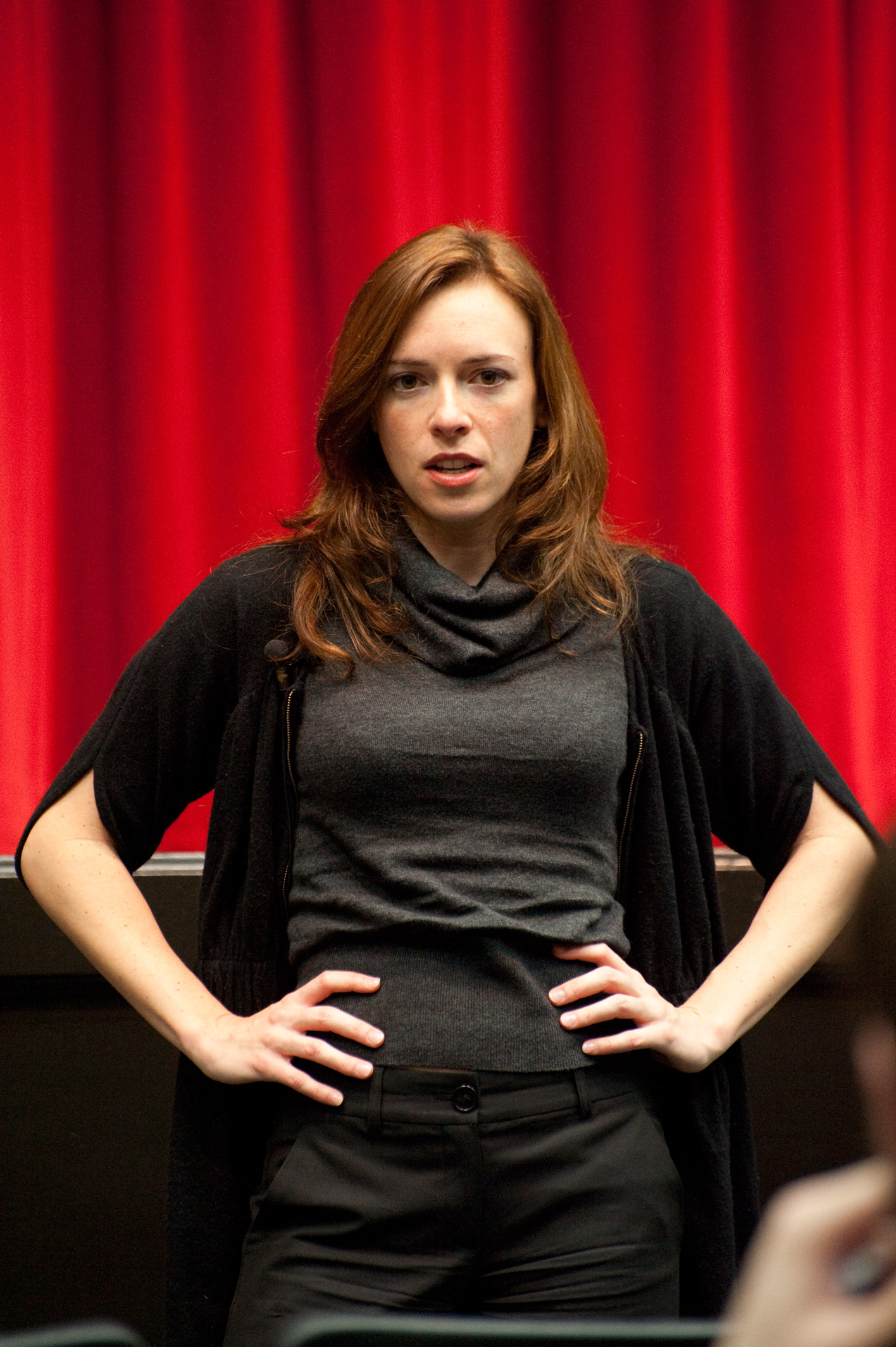 Jessica Jackley at the University of Tennessee on March 24, 2010.